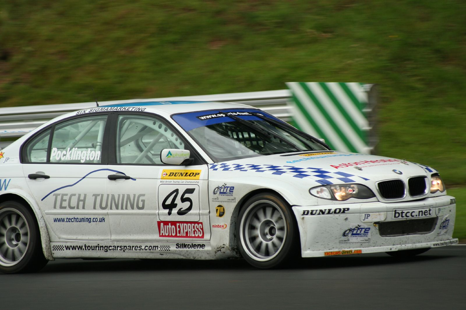 Jim Pocklington driving for BMW at the Oulton Park round of the 2007 British Touring Car Championship.